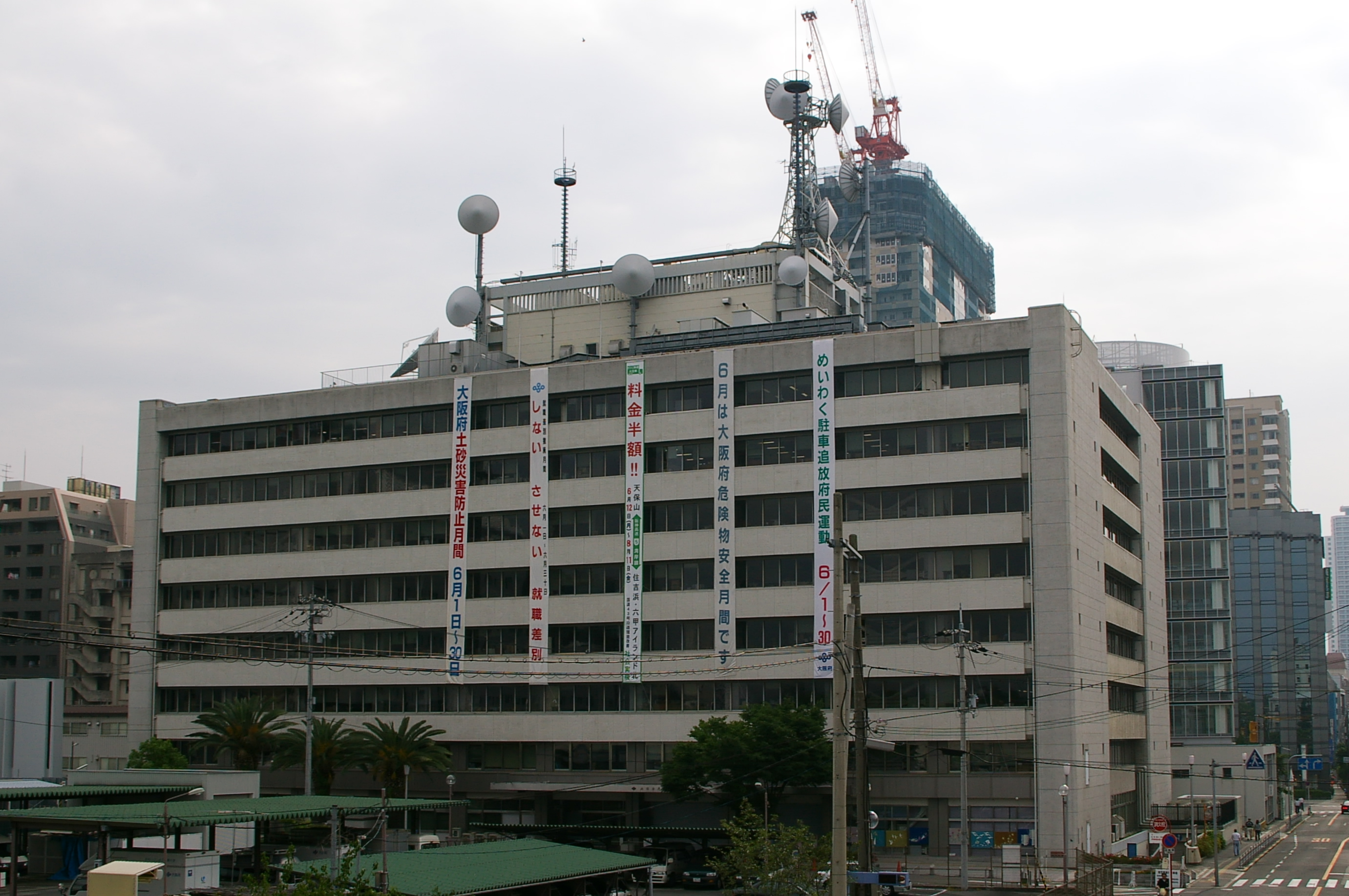 Photograph of Osaka Prefectural Government Annex in Chuo-ku, Osaka, Osaka Prefecture, Japan.